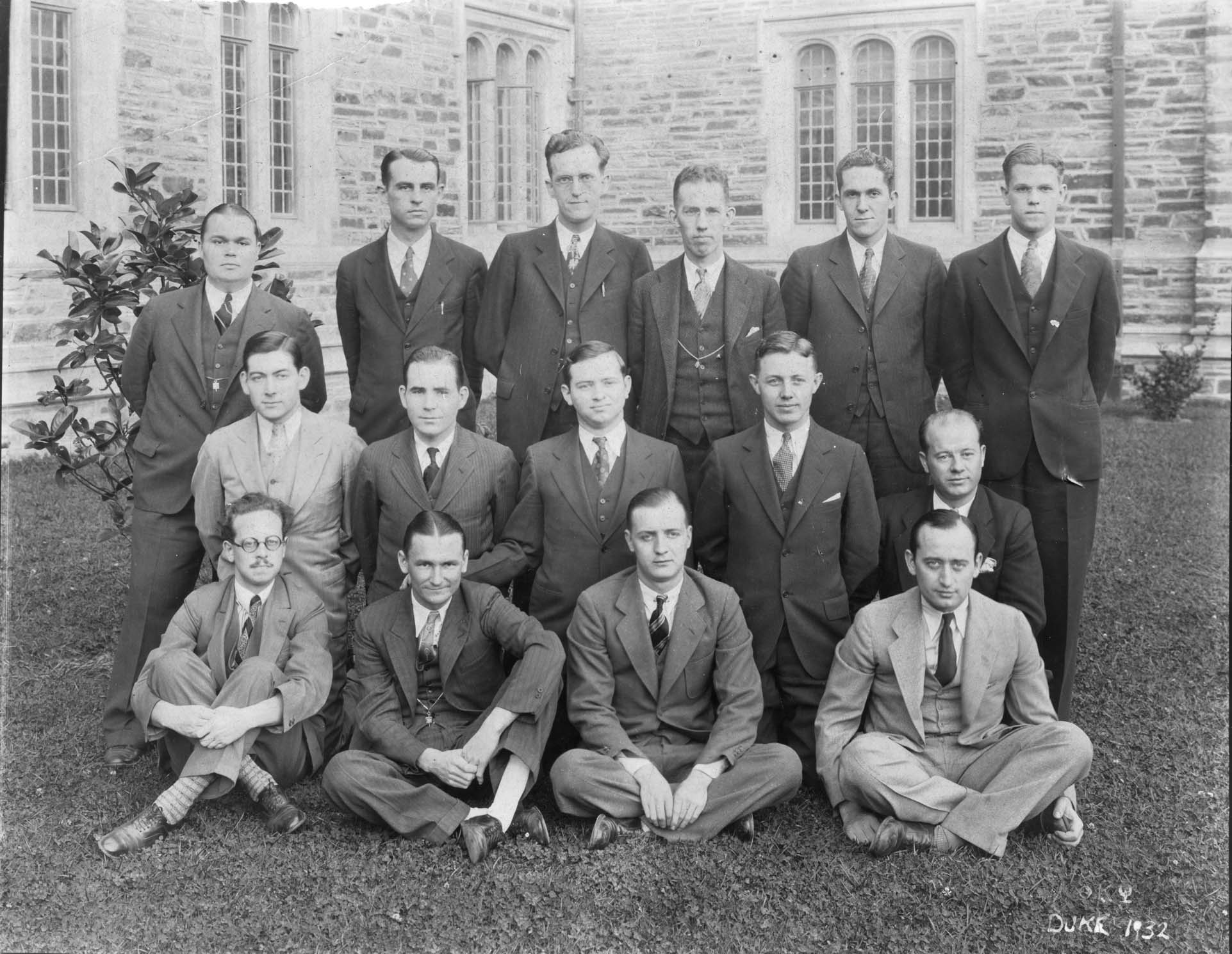 The Beta Kappa chapter of Theta Kappa Psi was probably established at Duke in 1931. (Left to right, seated) Noumeer (?), Cree, Peter, Fitzgerald. (Kneeling) Jeffreys, Adams, Frazier, Goy(?) Ricks. (Standing) Calloway, Bridges, Jones, Mahl, Joyner, Boyce. At least five fraternities have been founded in the School of Medicine: Alpha Kappa Kappa, Alpha Omega Alpha, Nu Sigma Nu, Phi Beta Pi, and Phi Chi. These societies maintained lounges on the first floor of the School of Medicine (opposite the Hospital store) until 1938, after which some of them established residence headquarters off the campus.